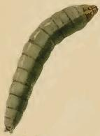 Stainton’s Natural History of the Tineina (1855–1873): Elachista argentella